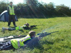 Members of YBNP firing air rifles at the annual youth camp